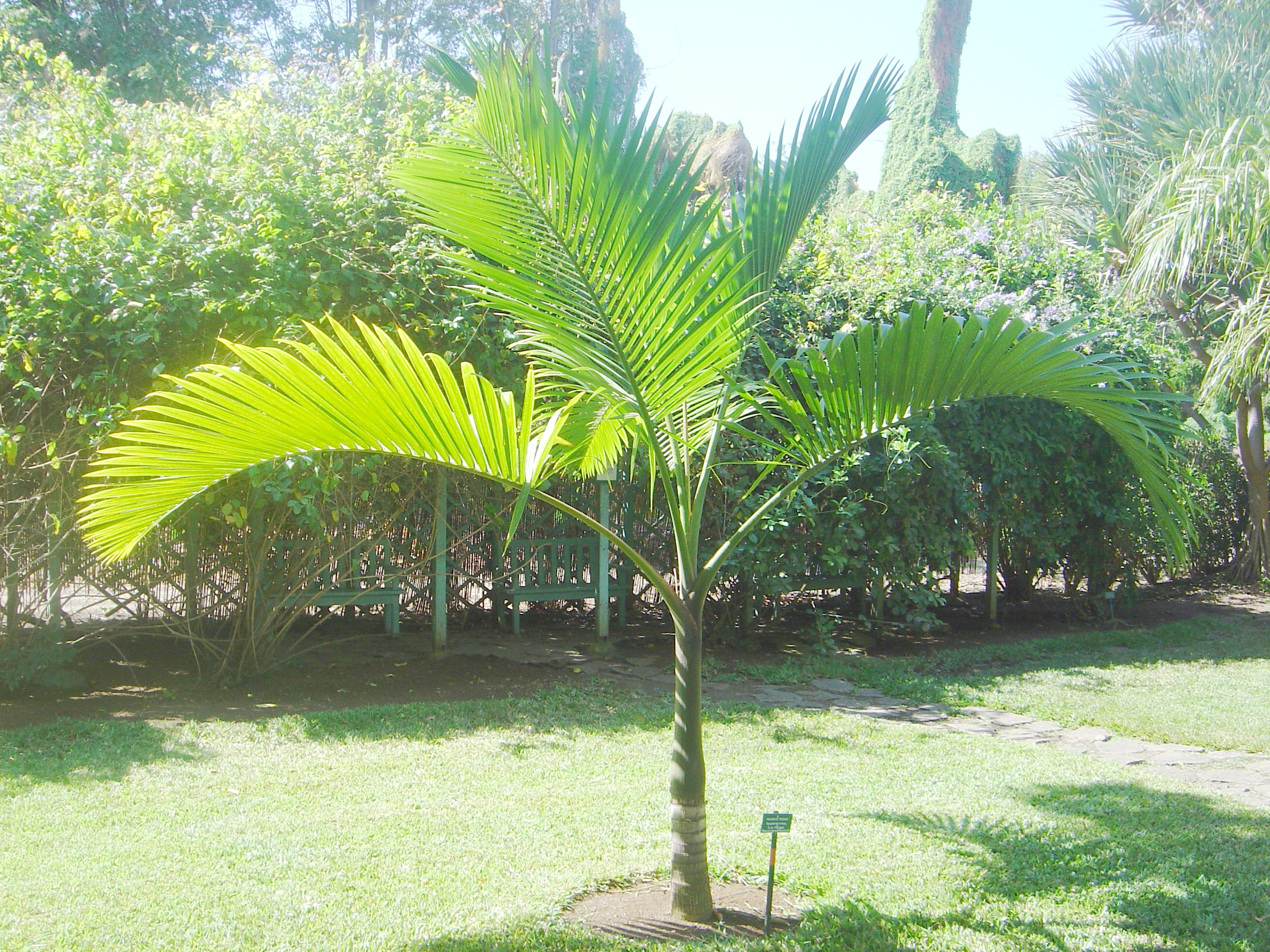 Photograph taken at the Jardin d'Éden botanical park, Saint-Gilles les Bains (commune of Saint-Paul), Réunion Island (Indian Ocean, a part of the French Republic).